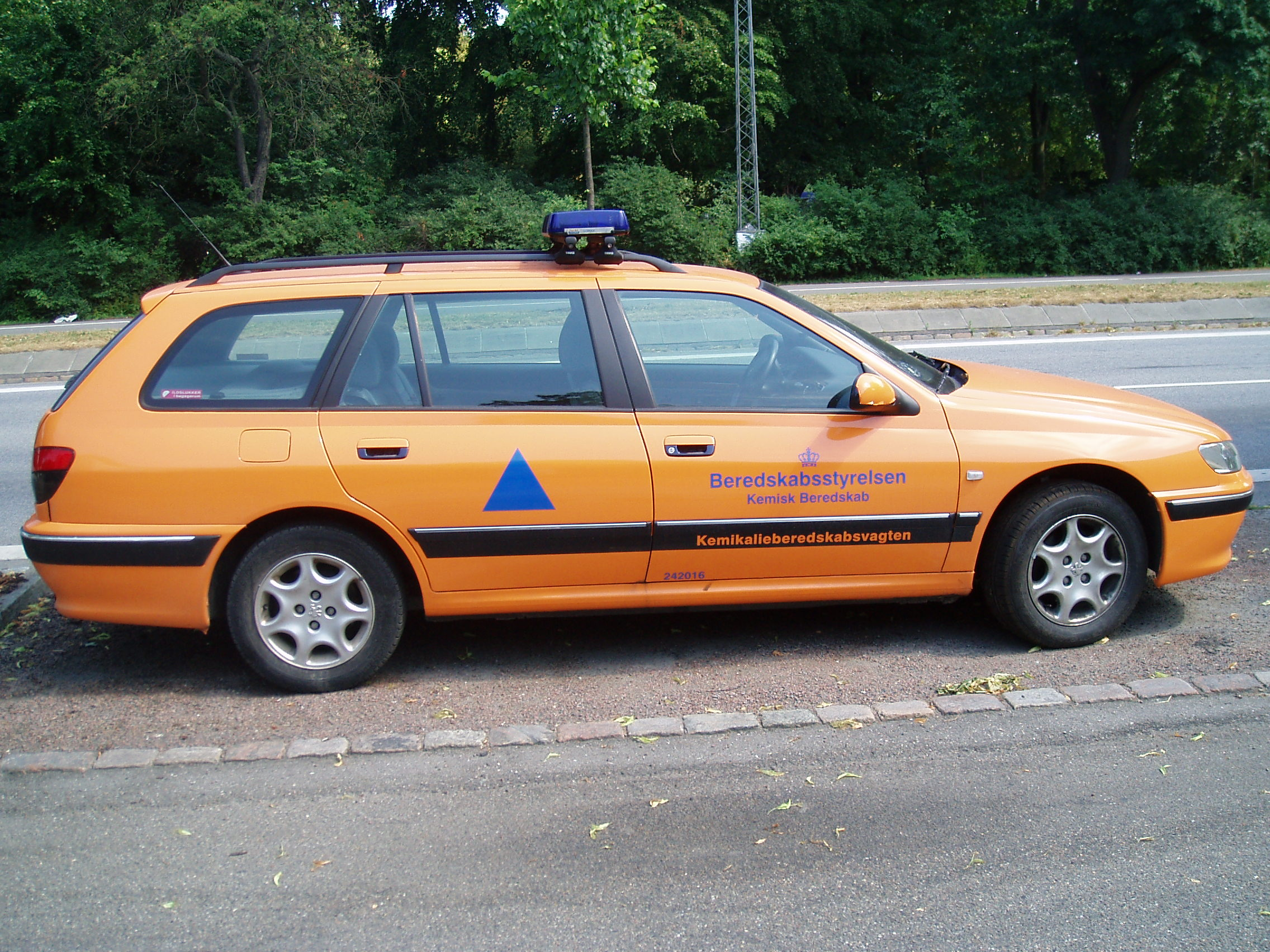 DEMA Chemical Division, chemical incident officer. DEMA's Chemical Division maintains af 24 hour state of preparedness with a chemist who may respond to chemical incidents. The division is sited at University of Copenhagen's Pharmaceutical Faculty.